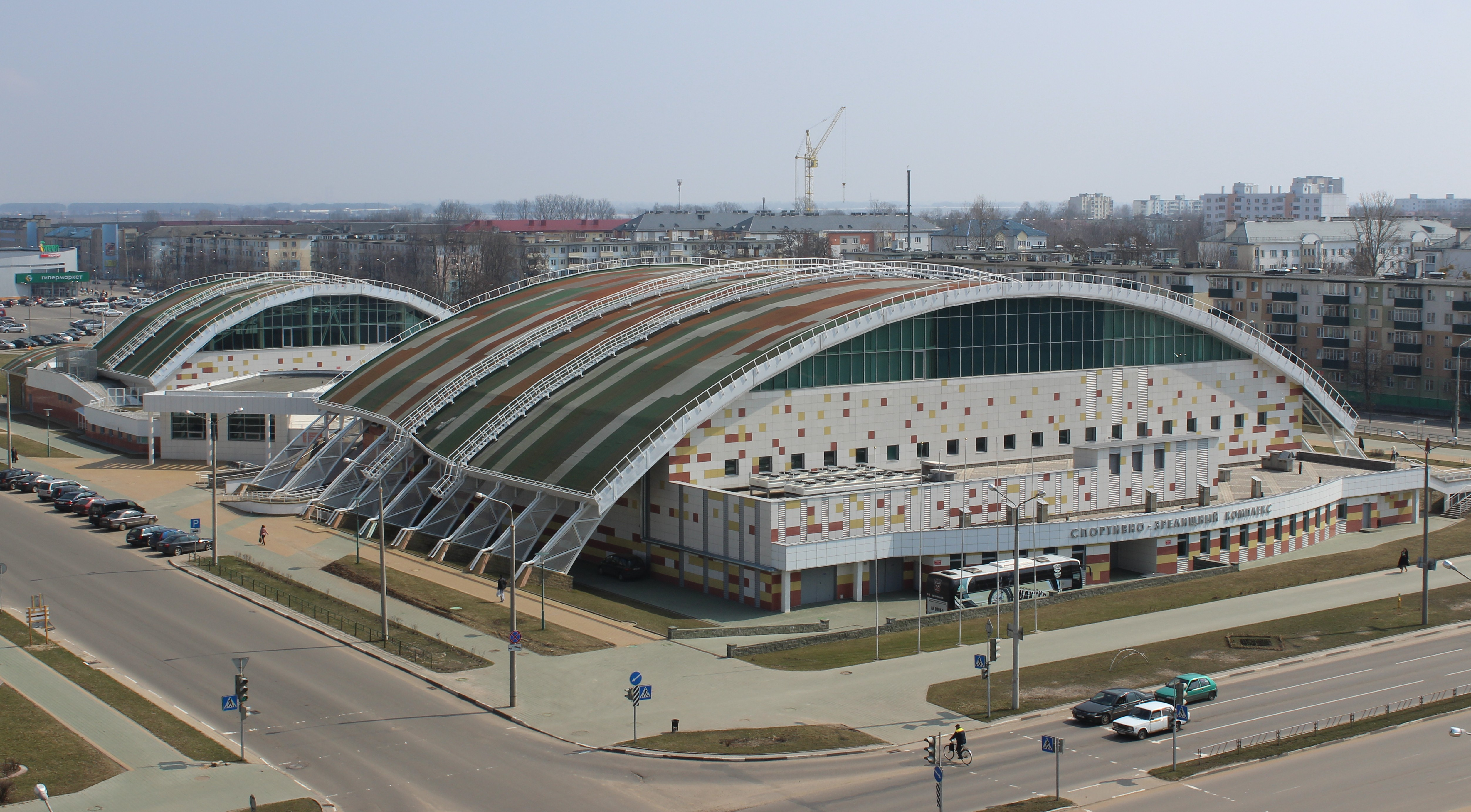 Ice hockey palace in Coligorsk, Belarus